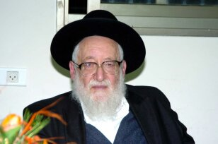 Rabbi Akiva Hakarmi